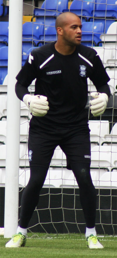 Darren Randolph in Birmingham City pre-season 2013.